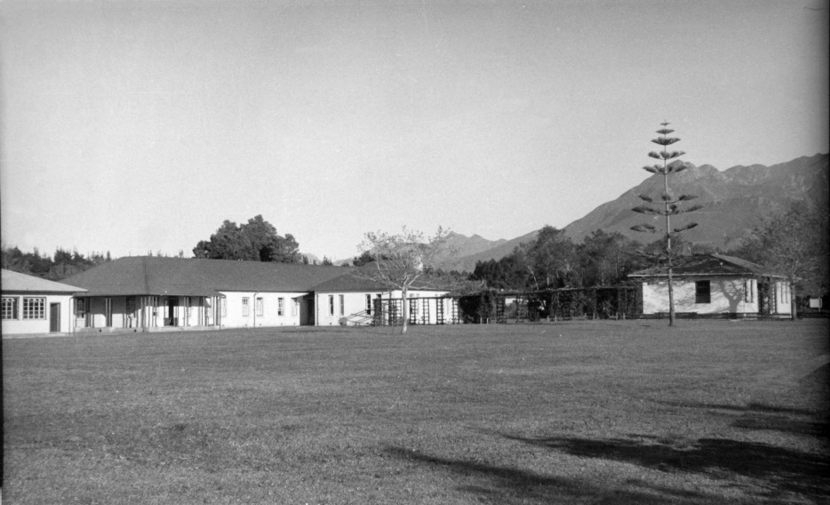 own image Paul venter 20:43, 27 November 2006 (UTC)